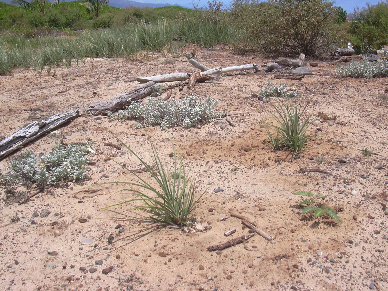 Cyperus javanicus (planting with nohu and hinahina). Location: Maui, Kanaha Beach